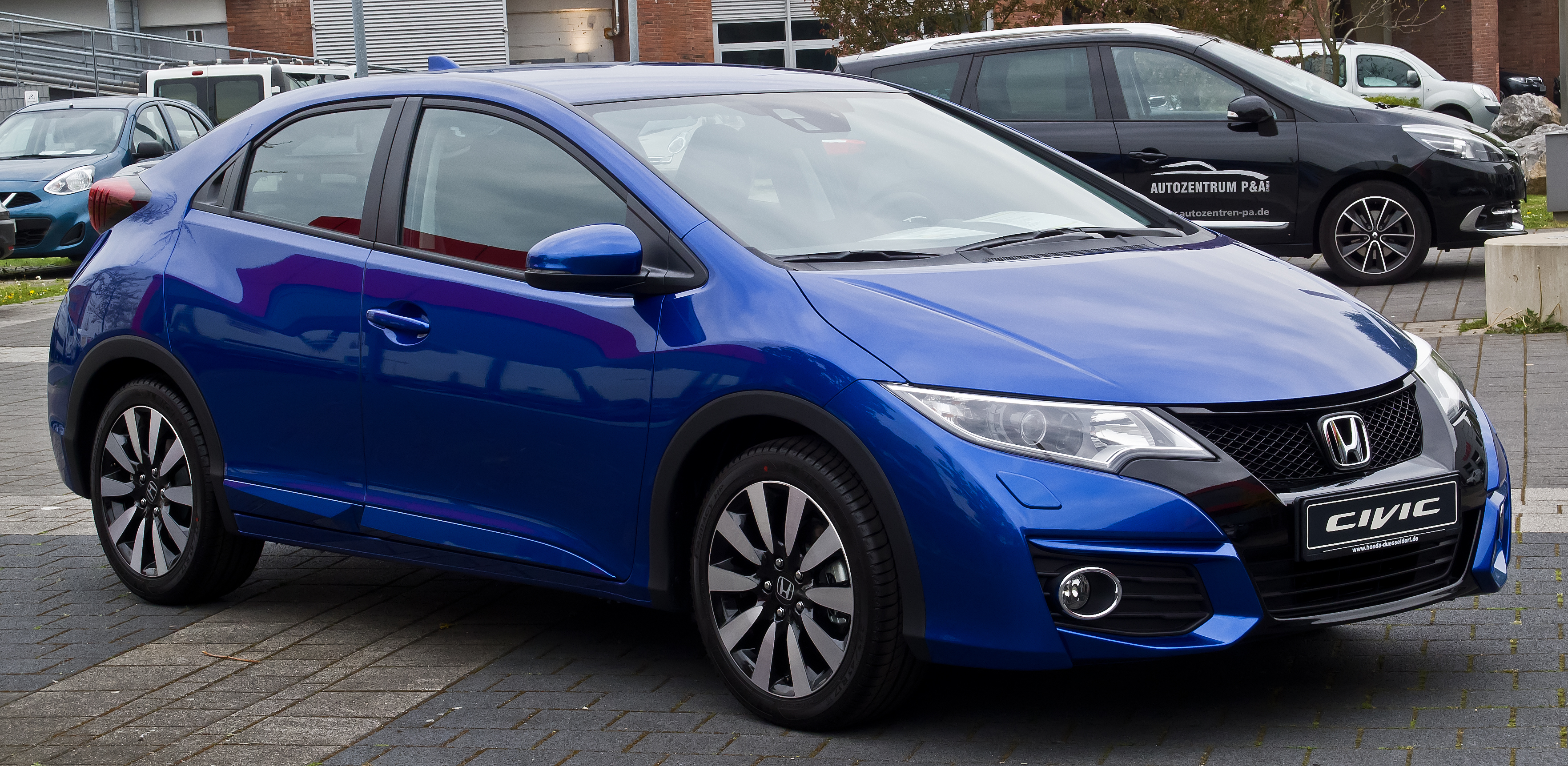 Honda Civic 1.6 i-DTEC Elegance (IX, Facelift)